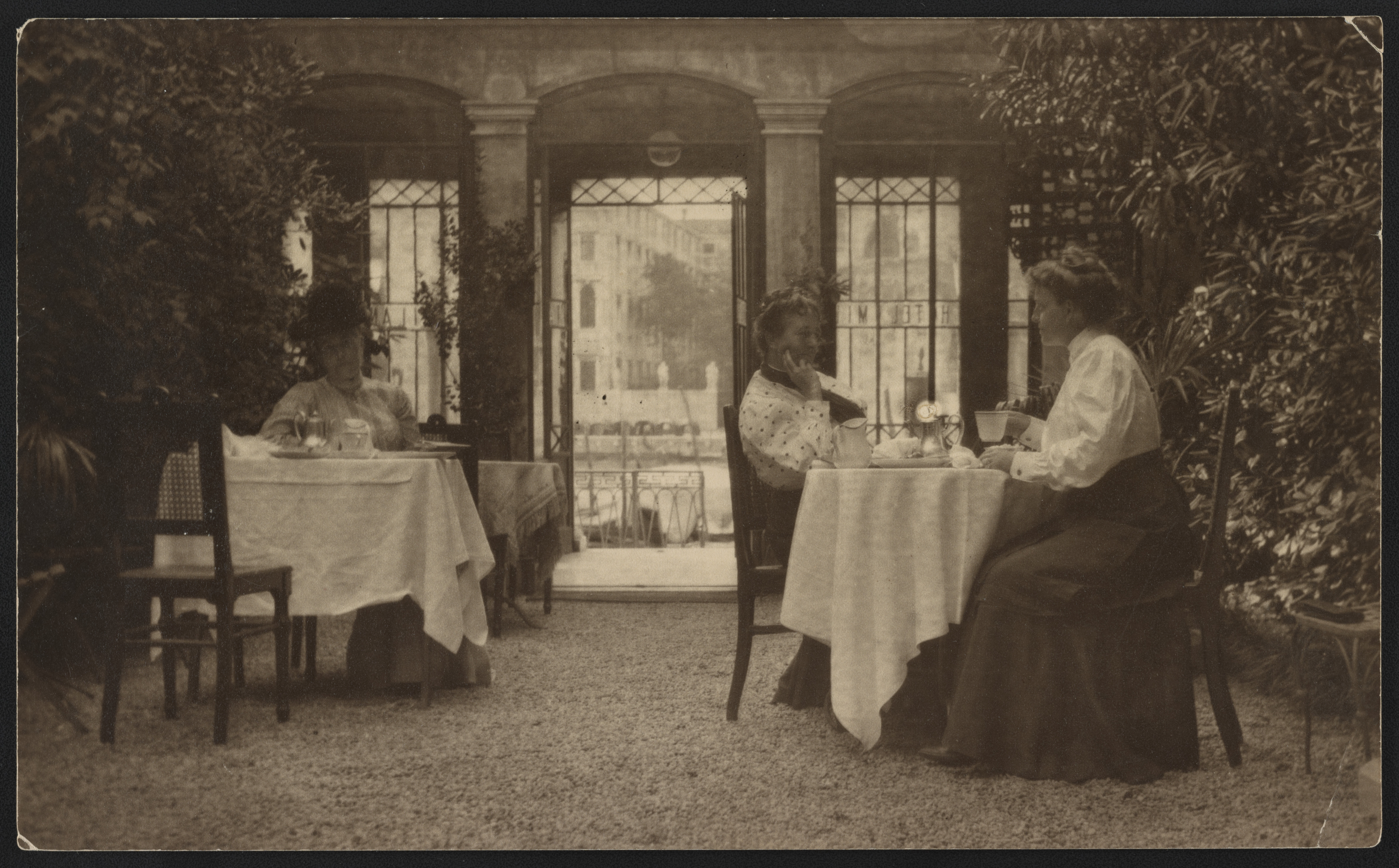 A photo of Frances Benjamin Johnston and Gertrude Käsebier at a hotel in Venice